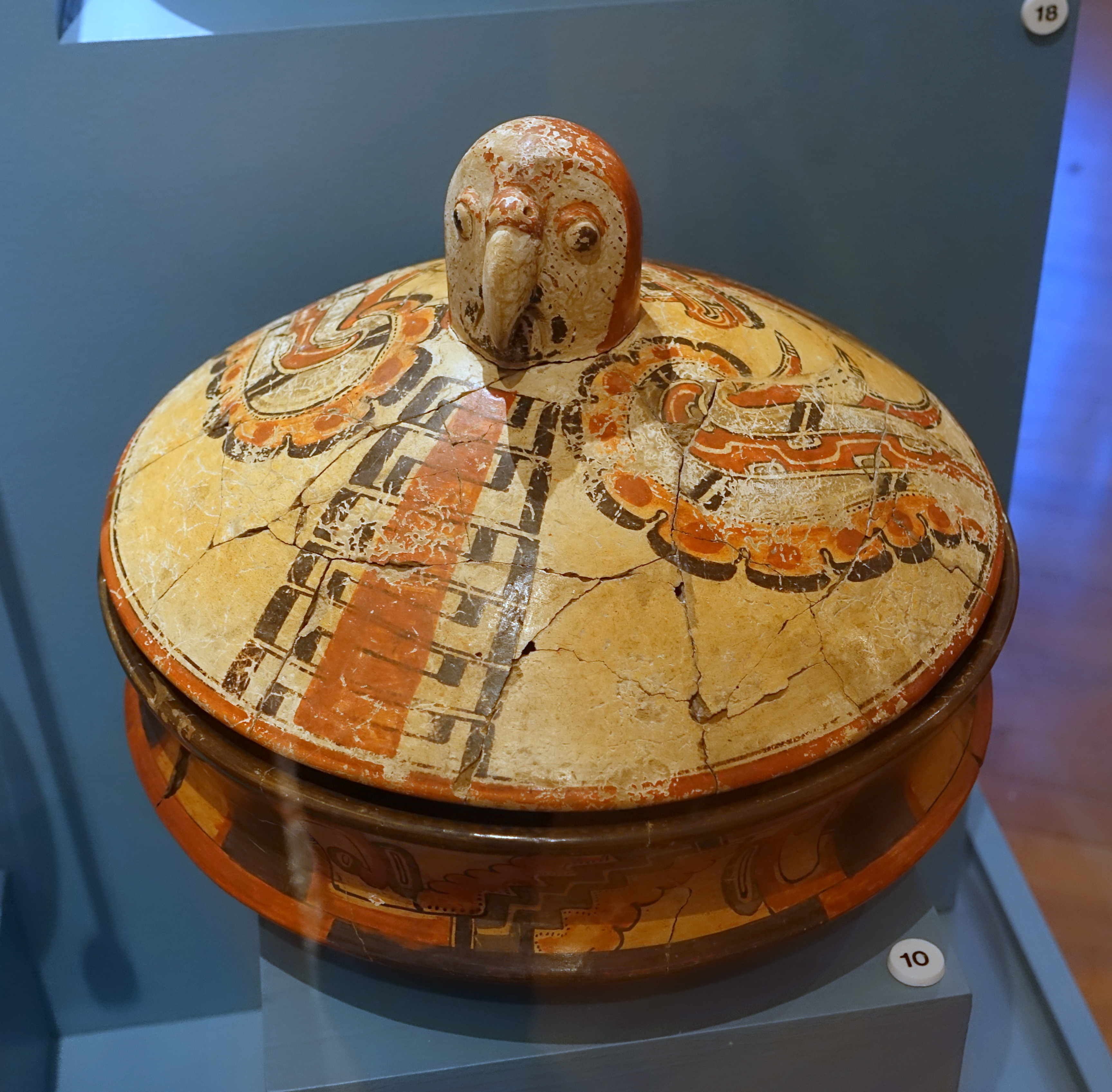 Exhibit from the Meso-American Collection, Peabody Museum, Harvard University, Cambridge, Massachusetts, USA. Photography was permitted without restriction; exhibit is old enough so that it is in the public domain.